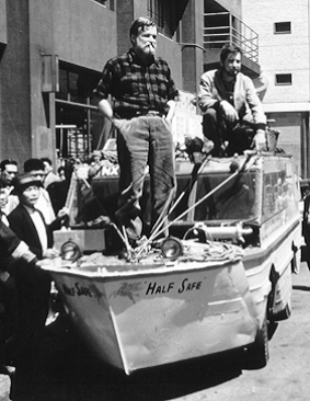 A photograph of Ben Carlin and Boye de Mente aboard their craft Half-Safe in Tokyo in late 1956.